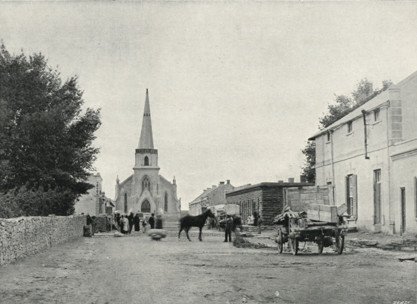 A photograph of Carl Otto Hager's Dutch Reformed Church in Fraserburg.